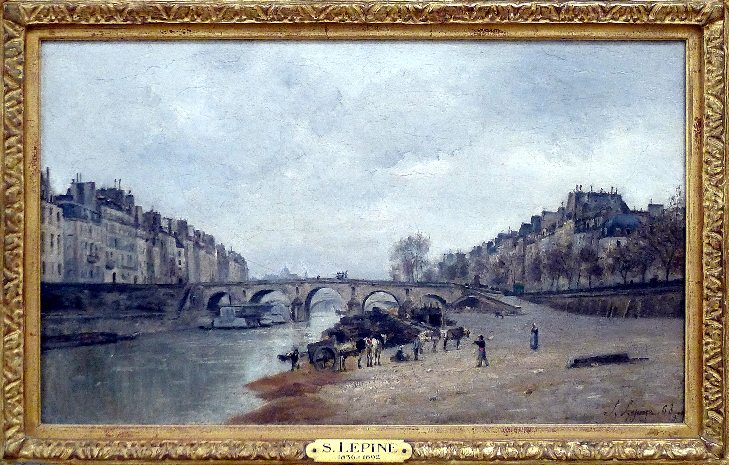 depicts the Seine River in Paris